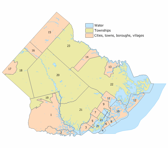 Atlantic County, New Jersey Municipalities